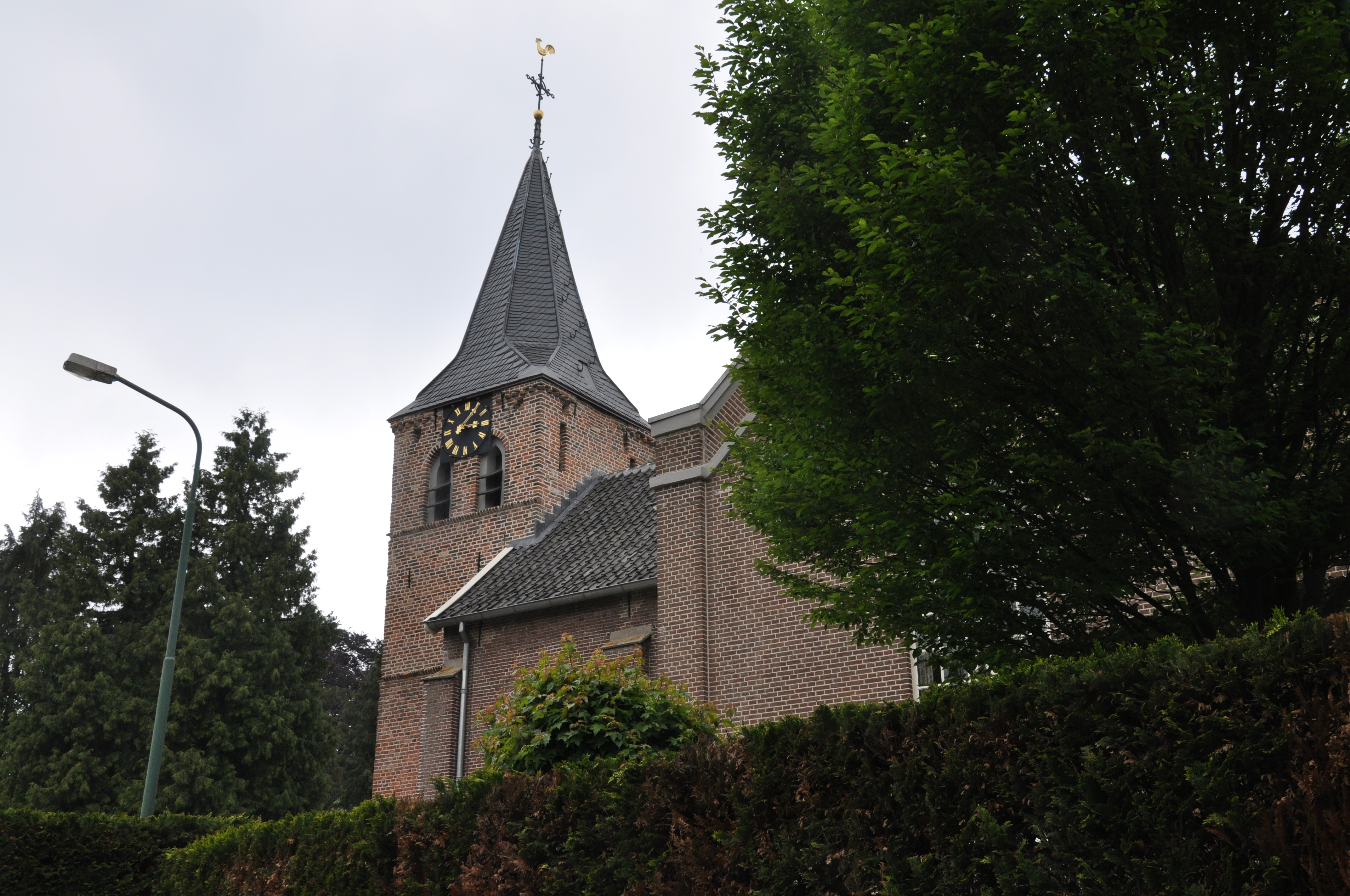 Reformed church Loenen